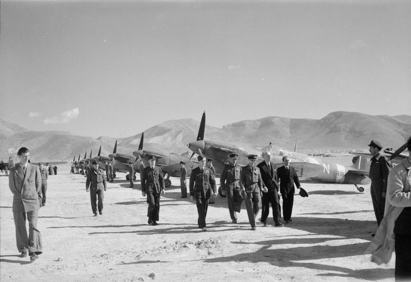 IWM caption : The Greek Prime Minister, George Papandreou (third from right) and the Greek Air Minister, M Fikioris (second from right), accompanied by Air Commodore G W Tuttle, Air Officer Commanding Air Headquarters Greece (seventh from right), and other Allied officers, inspects a line of Supermarine Spitfire Mark Vs and pilots of No. 336 (Hellenic) Squadron RAF during an official ceremony at Kalamaki/Hassani to welcome Greek units serving with the Allied Air Forces back to their homeland. No. 337 Wing RAF, of which Nos. 335 and 336 (Hellenic) Squadrons RAF and No. 13 Squadron, Royal Hellenic Air Force formed part, arrived in Greece on 16 November 1944, and continued operations there until its disbandment on 15 June 1946, after which the Greek squadrons were transferred to Greek control.